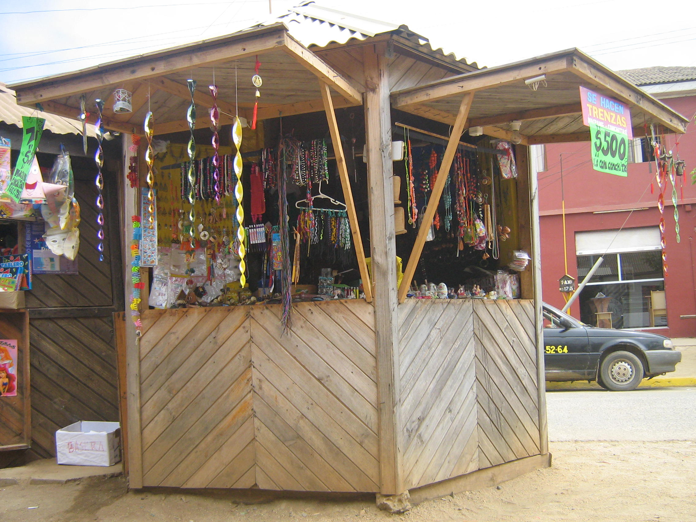 Kiosk Janita, in Pichilemu.